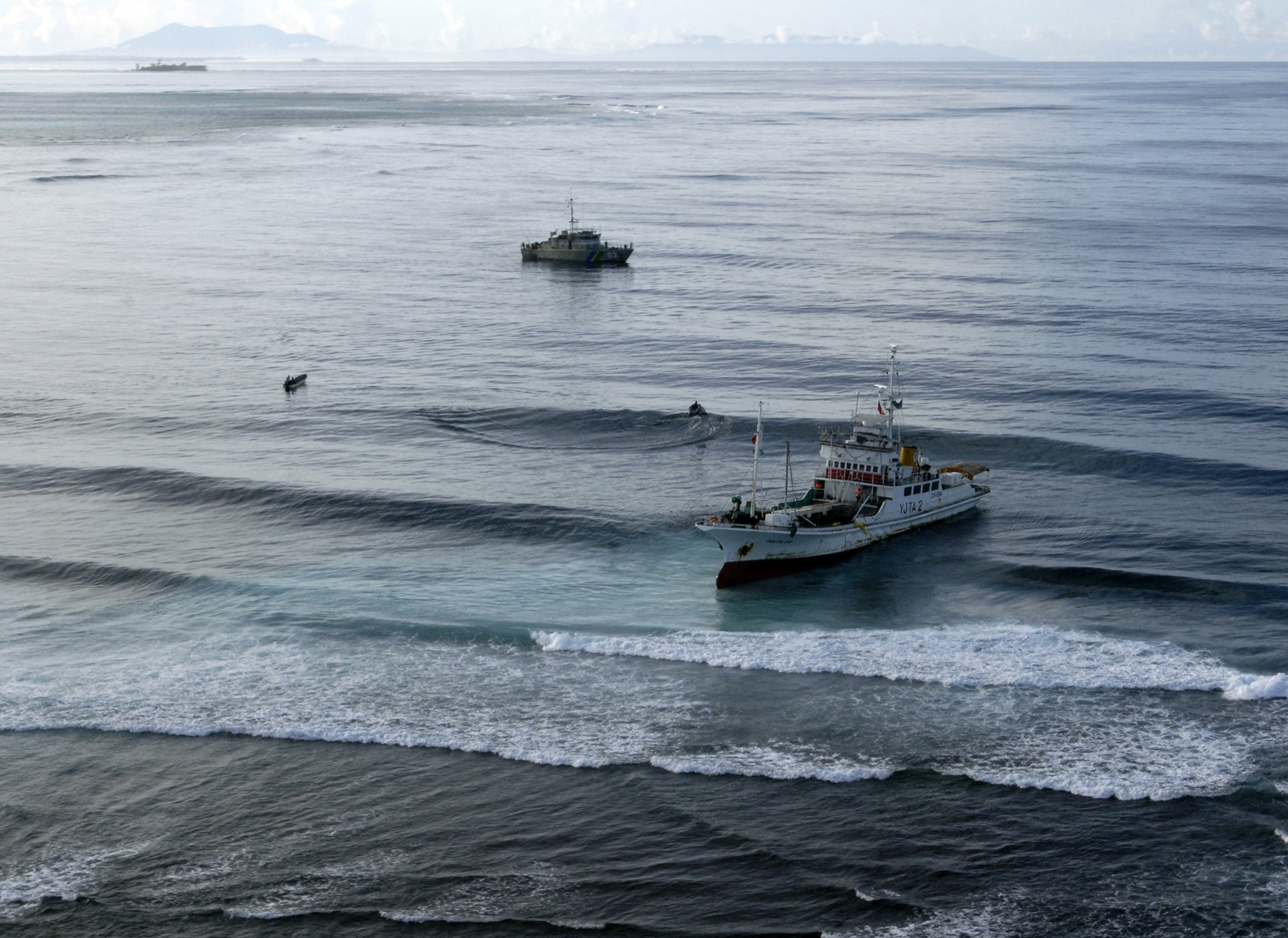 Solomon Island Police's patrol boat Lata and U.S.Navy crew rescue a Taiwanese fishing vessel that stucked on a reef in the waters around the Solomon Islands.